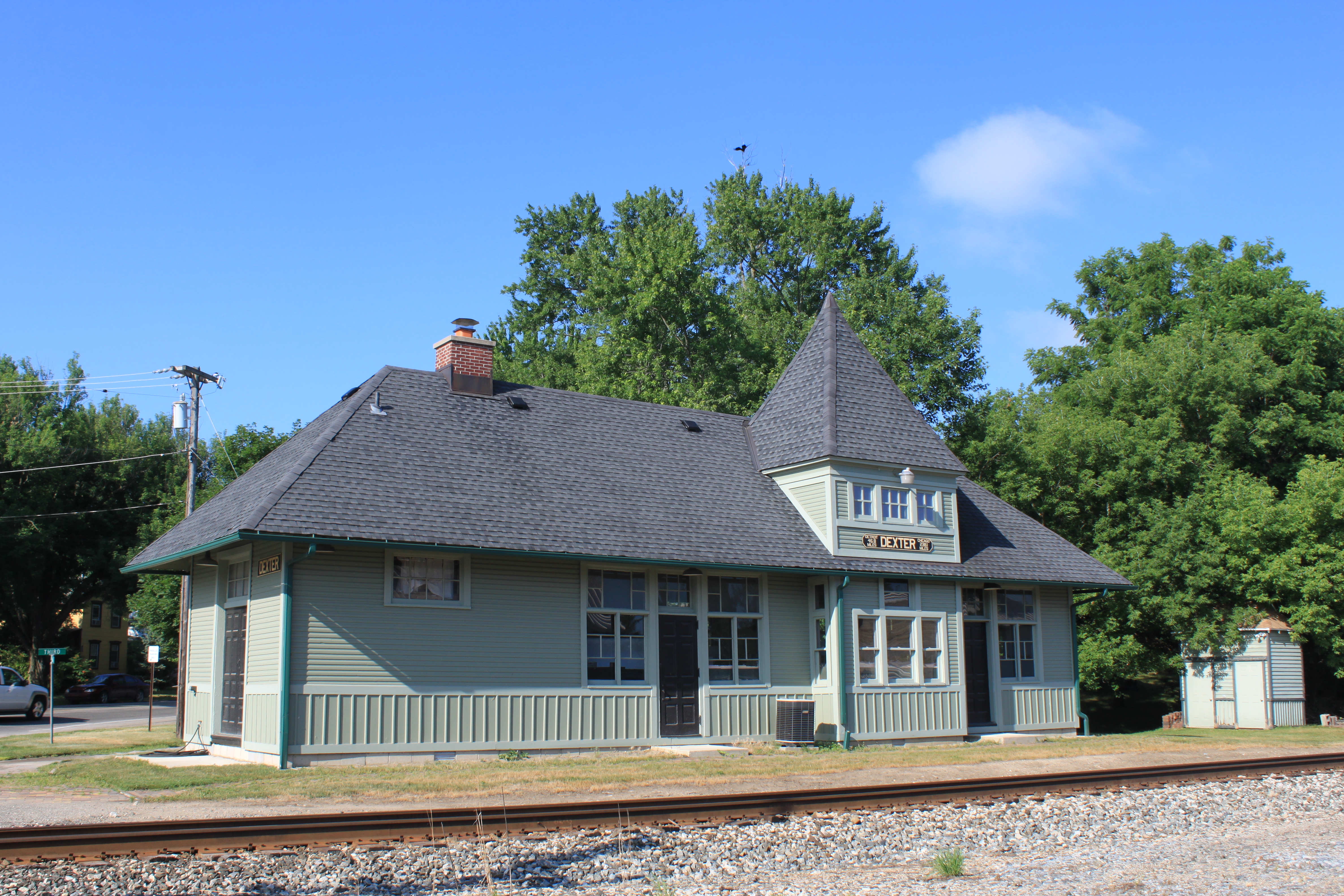 Michigan Central Railroad Dexter Depot — 3487 Broad Street, Dexter, Michigan. The building is a Registered Michigan State Historic Site.